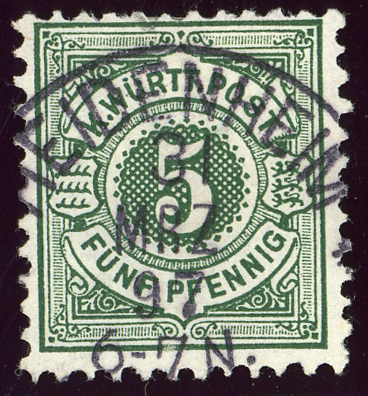 Kingdom of Wurtemberg 5 Pfennig stamp, issue 1890, cancelled at HEIDENHEIM (an der Brenz) in 1897.